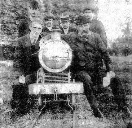 Blakesley Miniature Railway Back (left to right) Frederick Green , Alec Wyatt, Henry Greenly, Percy Wyatt Front (left to right) Wenman Joseph Bassett-Lowke, 'Blacolvesley', Charles William Bartholomew